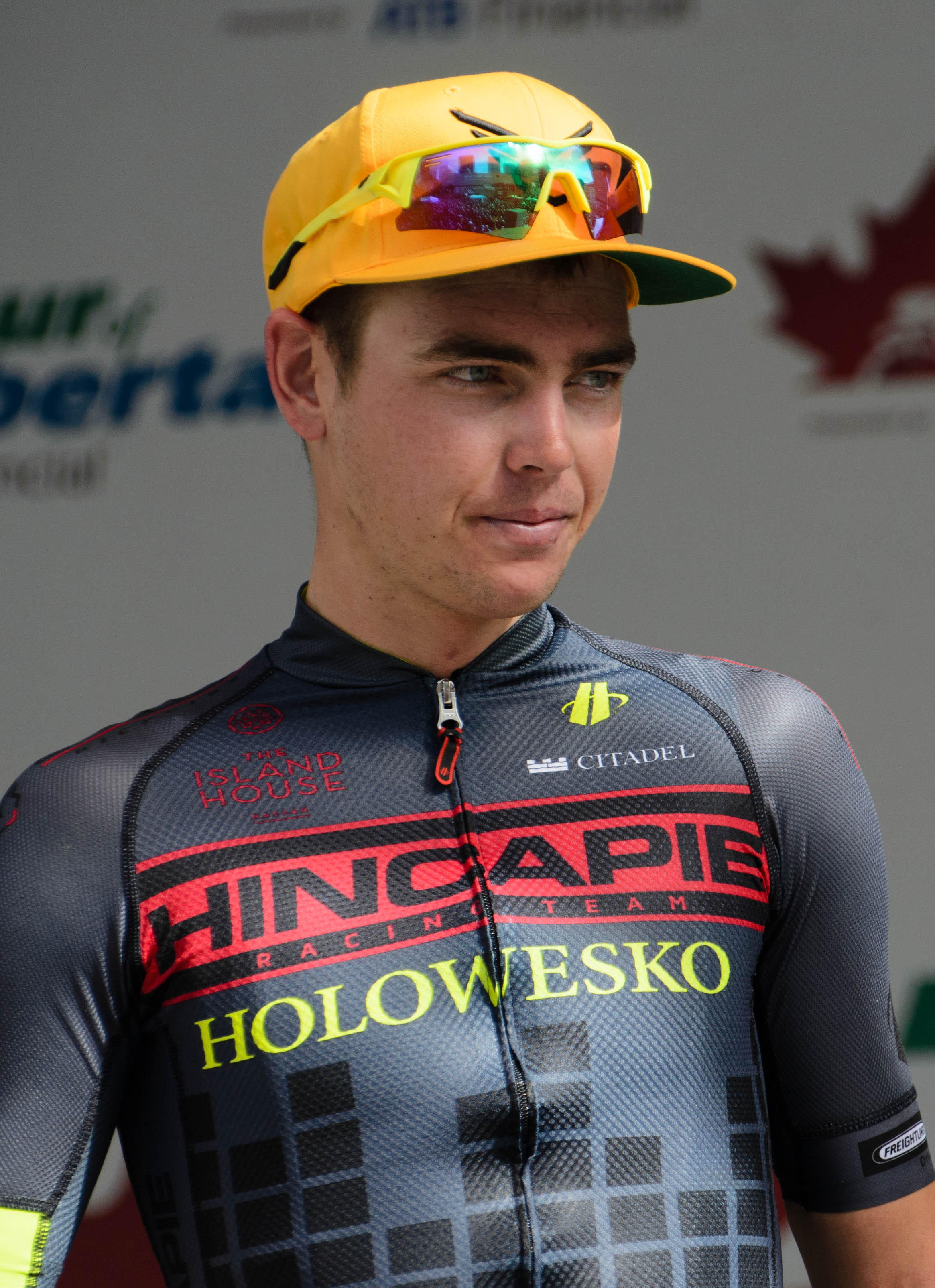 Dion Smith at the 2015 Tour of Alberta. Please attribute Connor Mah if used elsewhere